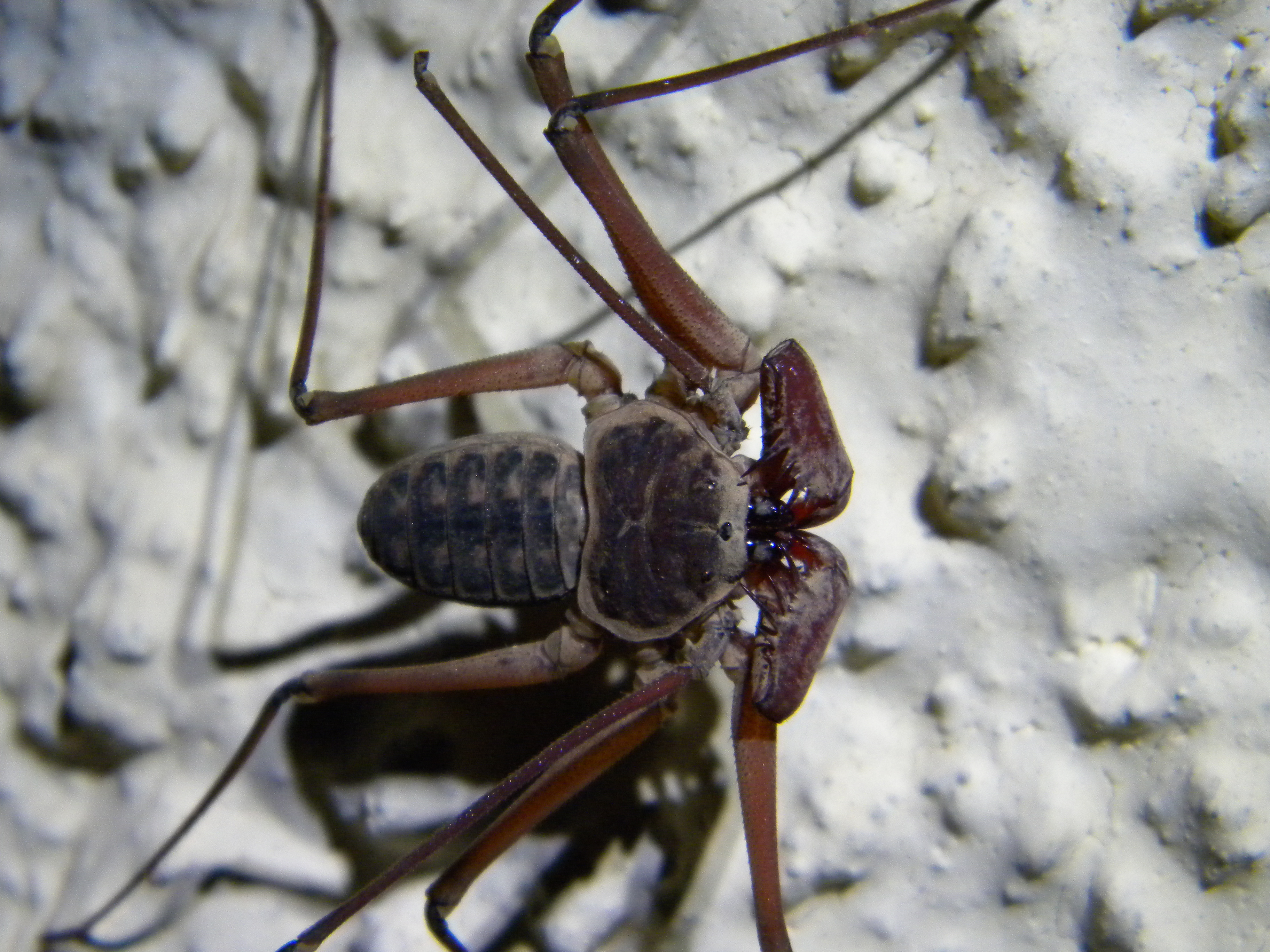 Phrynus sp.